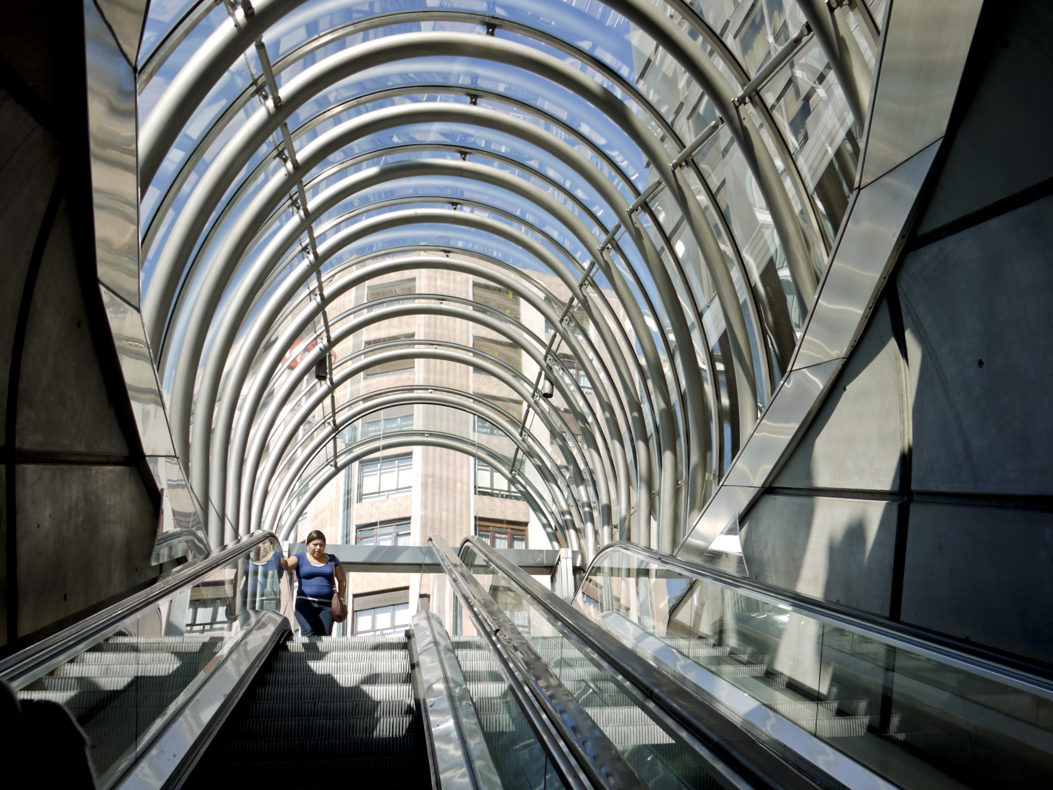 Moyua metro station, Bilbao, Spain. Entrance.